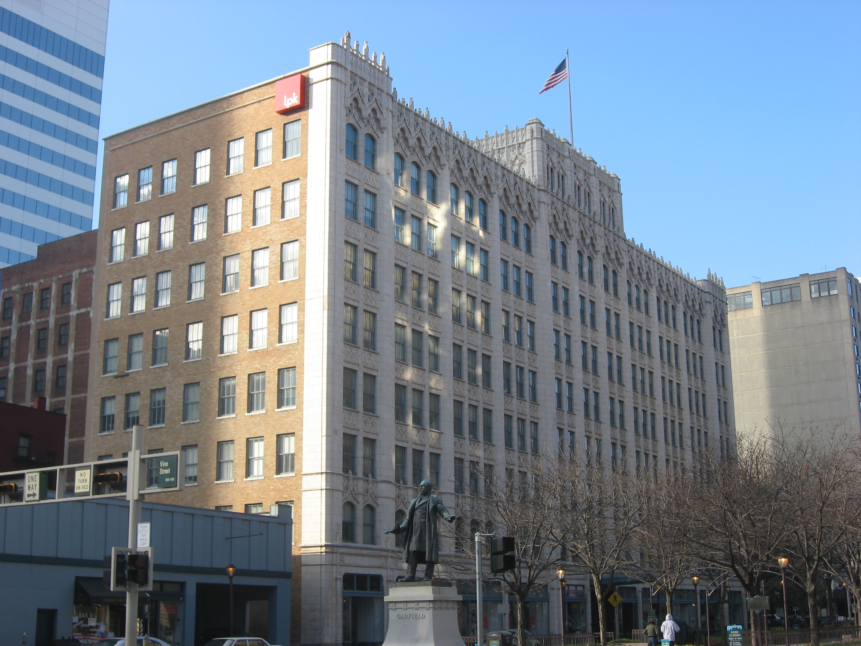 Front and eastern side of the Doctors' Building, located at 19 Garfield Place in downtown Cincinnati, Ohio, United States. Built in 1923, it is listed on the National Register of Historic Places.